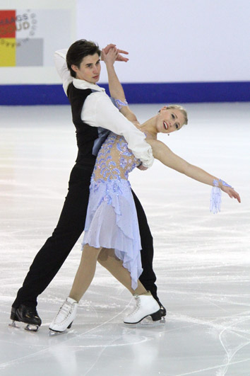 Piper GILLES and Zachary DONOHUE (USA) at the 2010 World Junior Figure Skating Championships.СD.